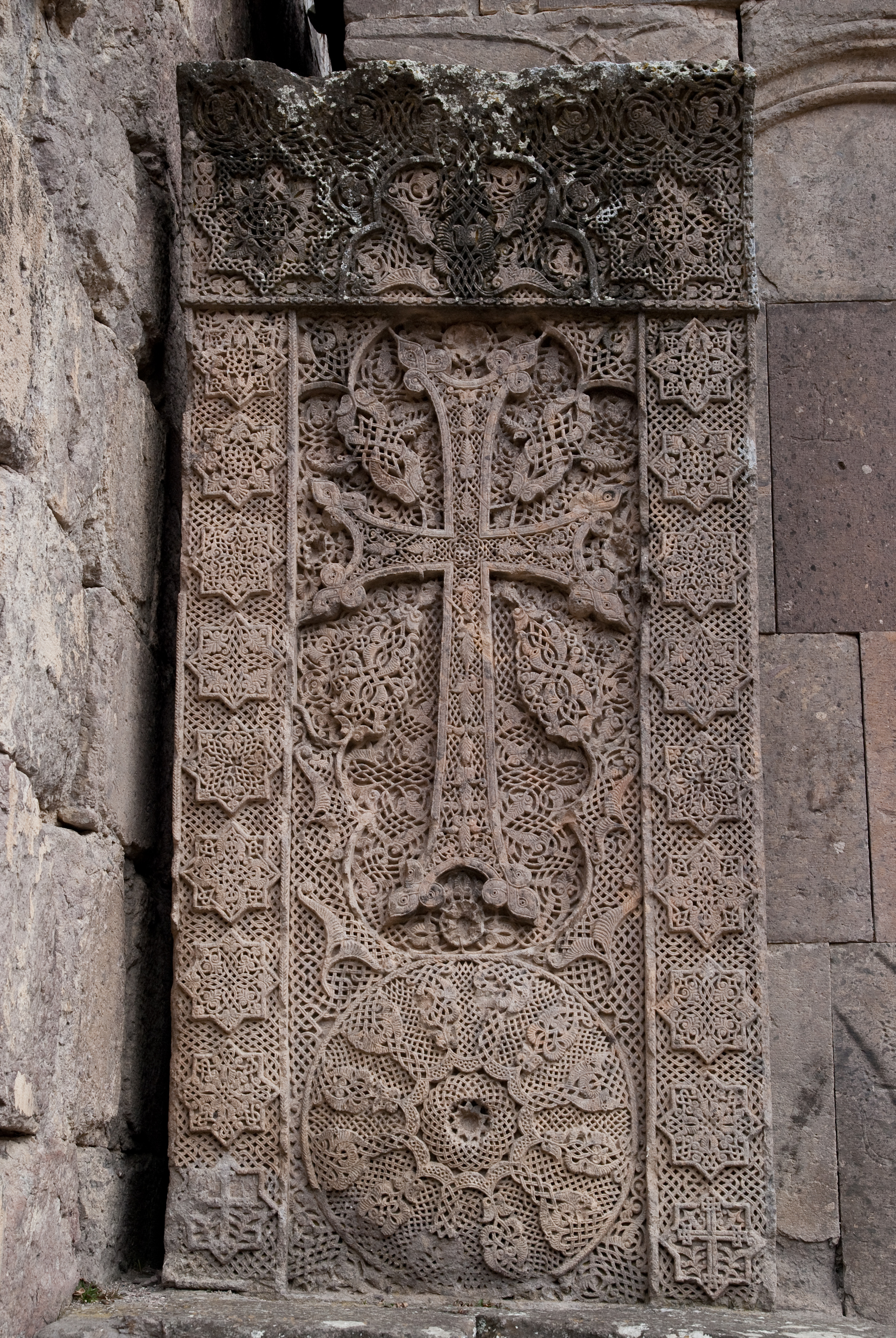 a khachkar at the Goshavank monastery in Armenia. Poghos, 1291